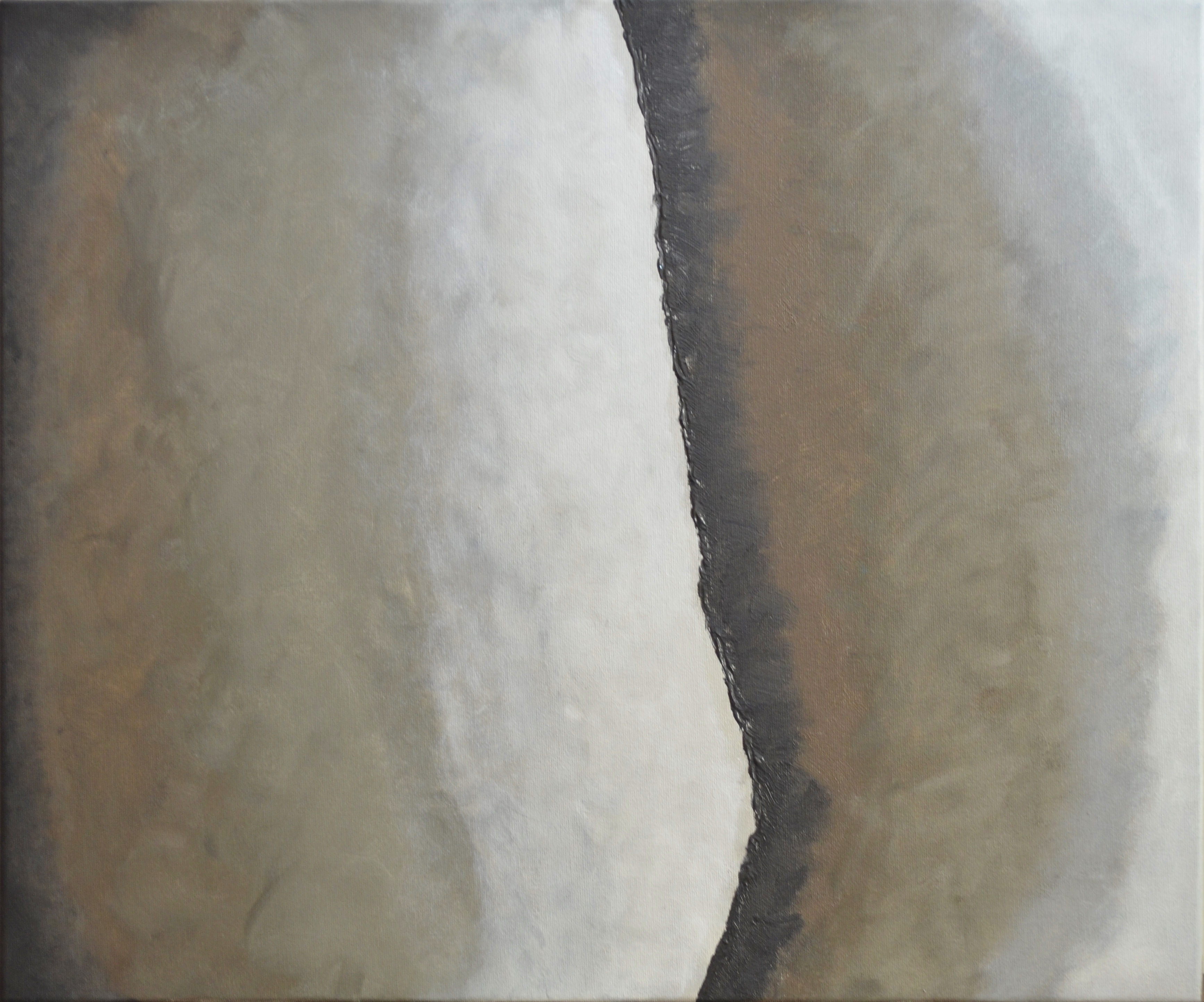 Example of abstract painting, Natalia Plachta Fernandes, .br